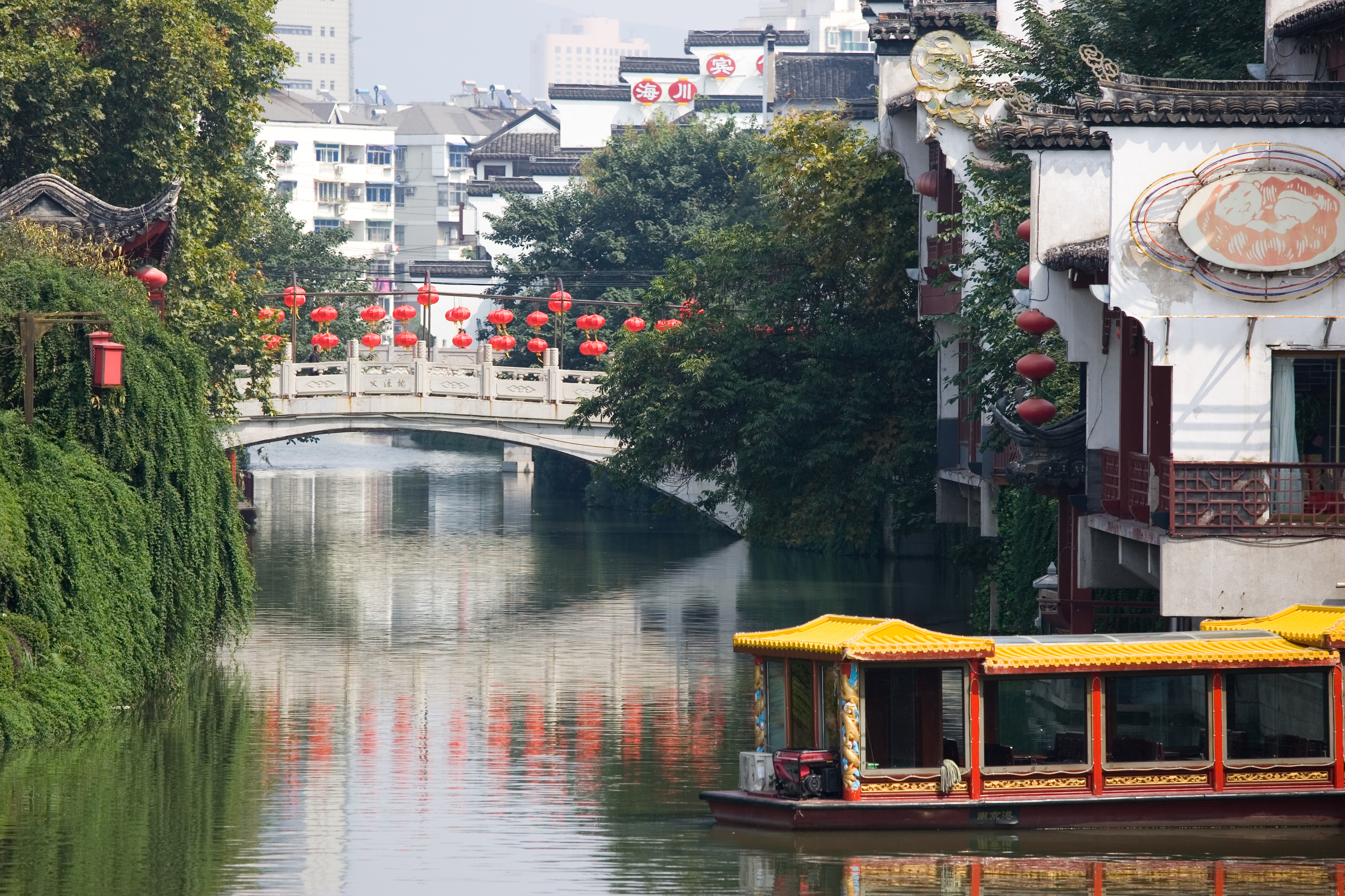 To improve the article, Confucius Temple in Nanjing.